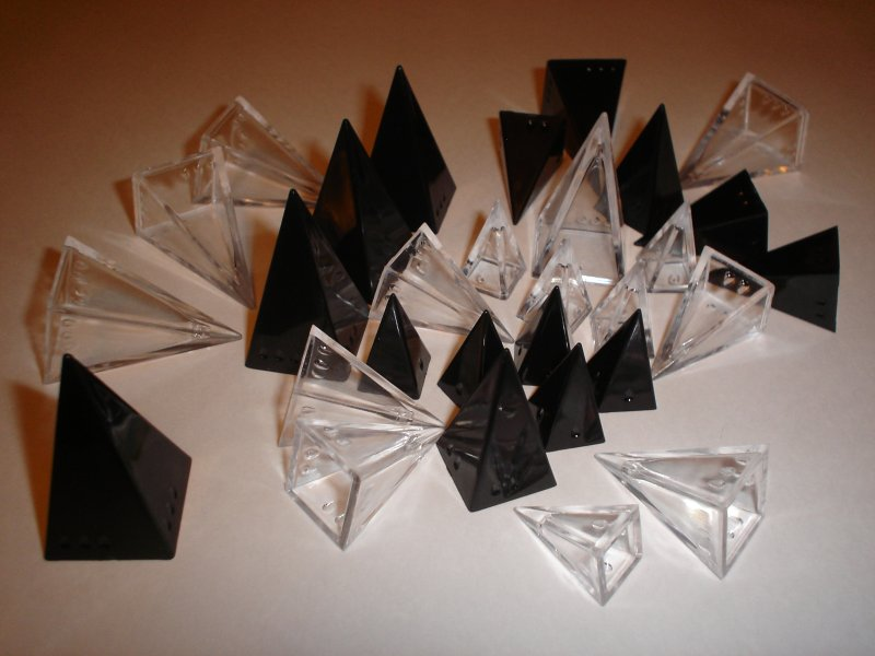 A completed game of Icehouse. Captioned As { }